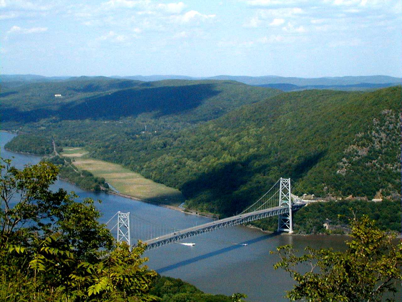 Bear Mountain Bridge from the top of Bear Mountain User:Mwanner took this photo on 6/6/99